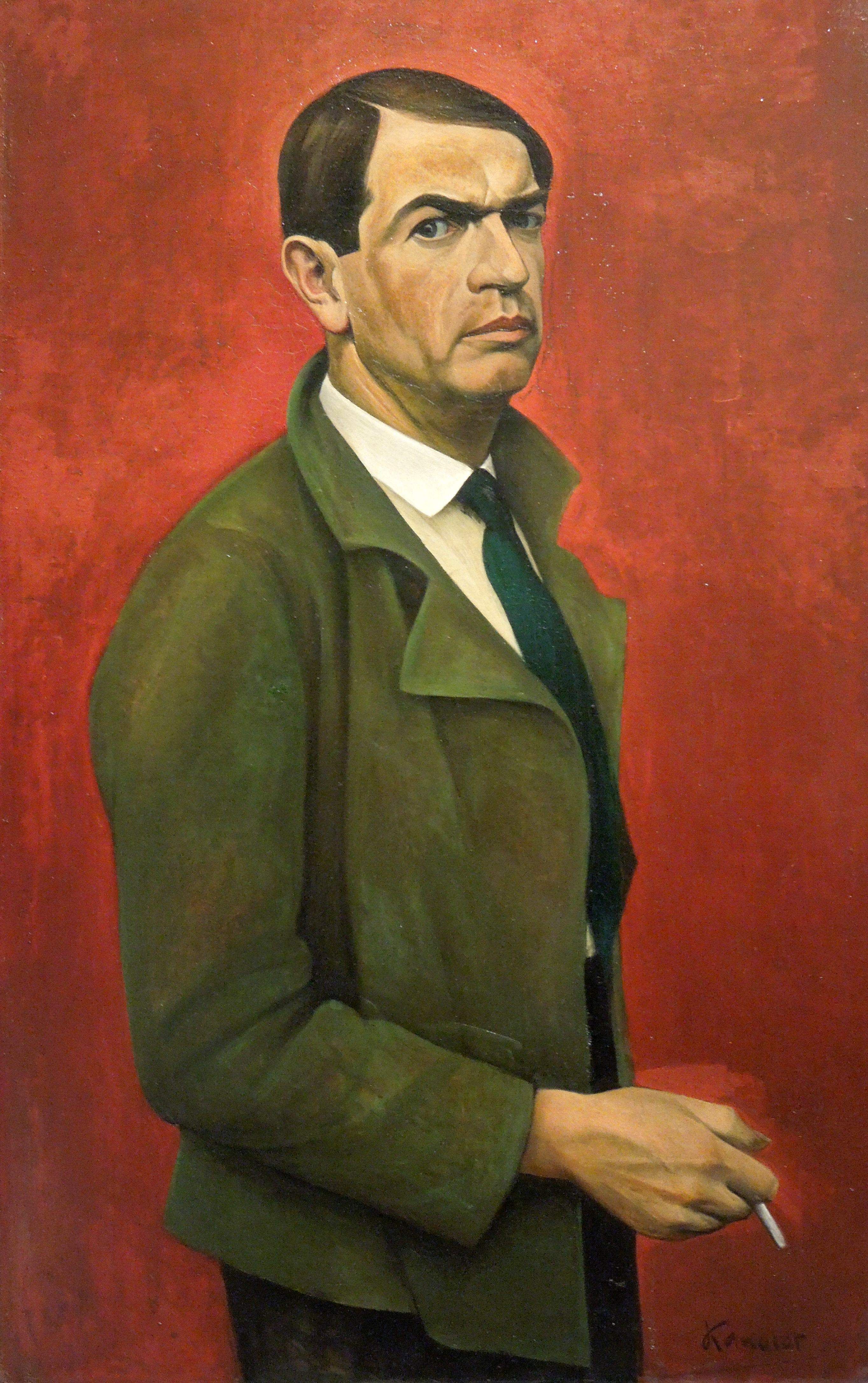 Alexander Kanoldt - Self-Portrait, oil on canvas